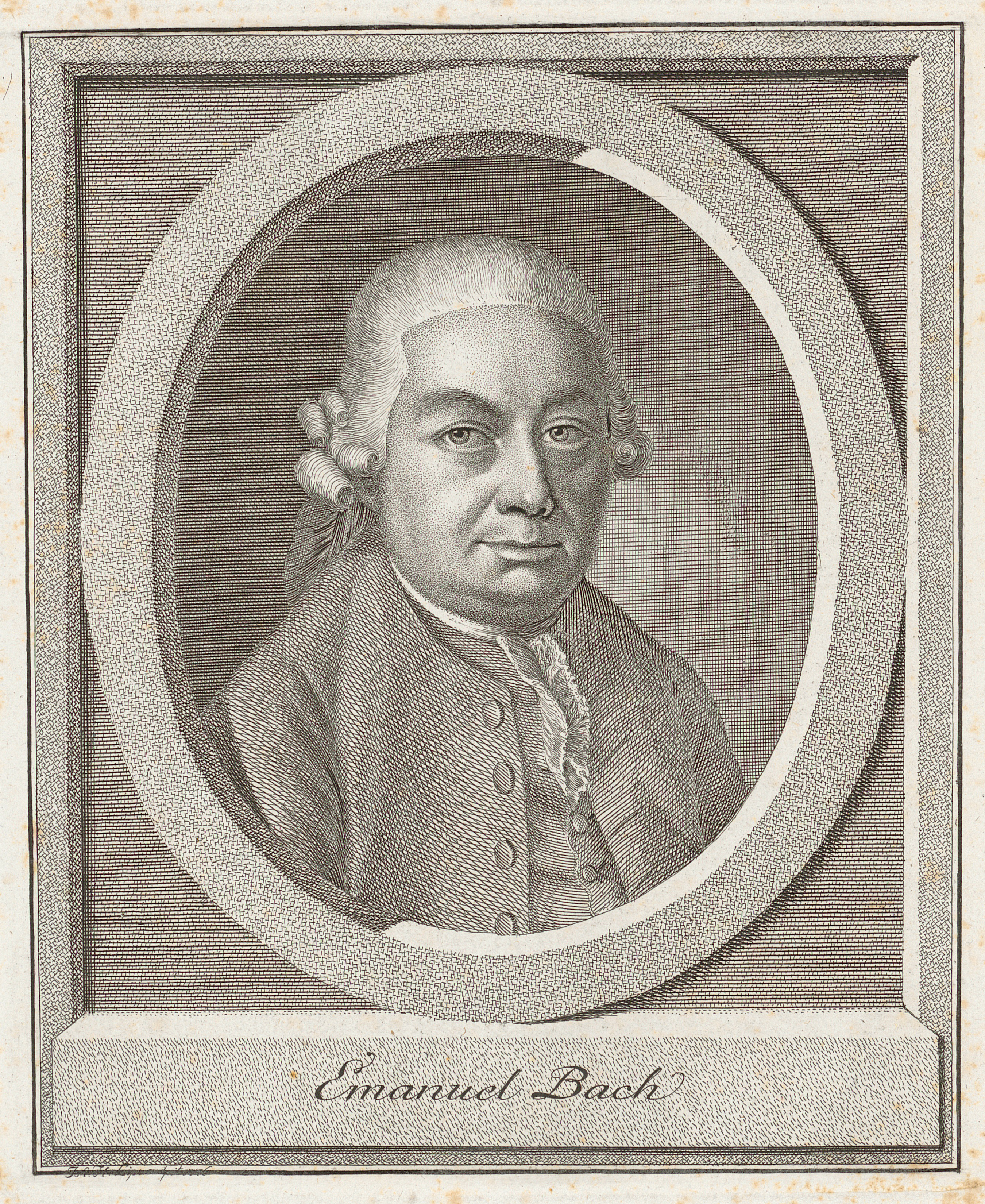 Depicted person: Carl Philipp Emanuel Bach